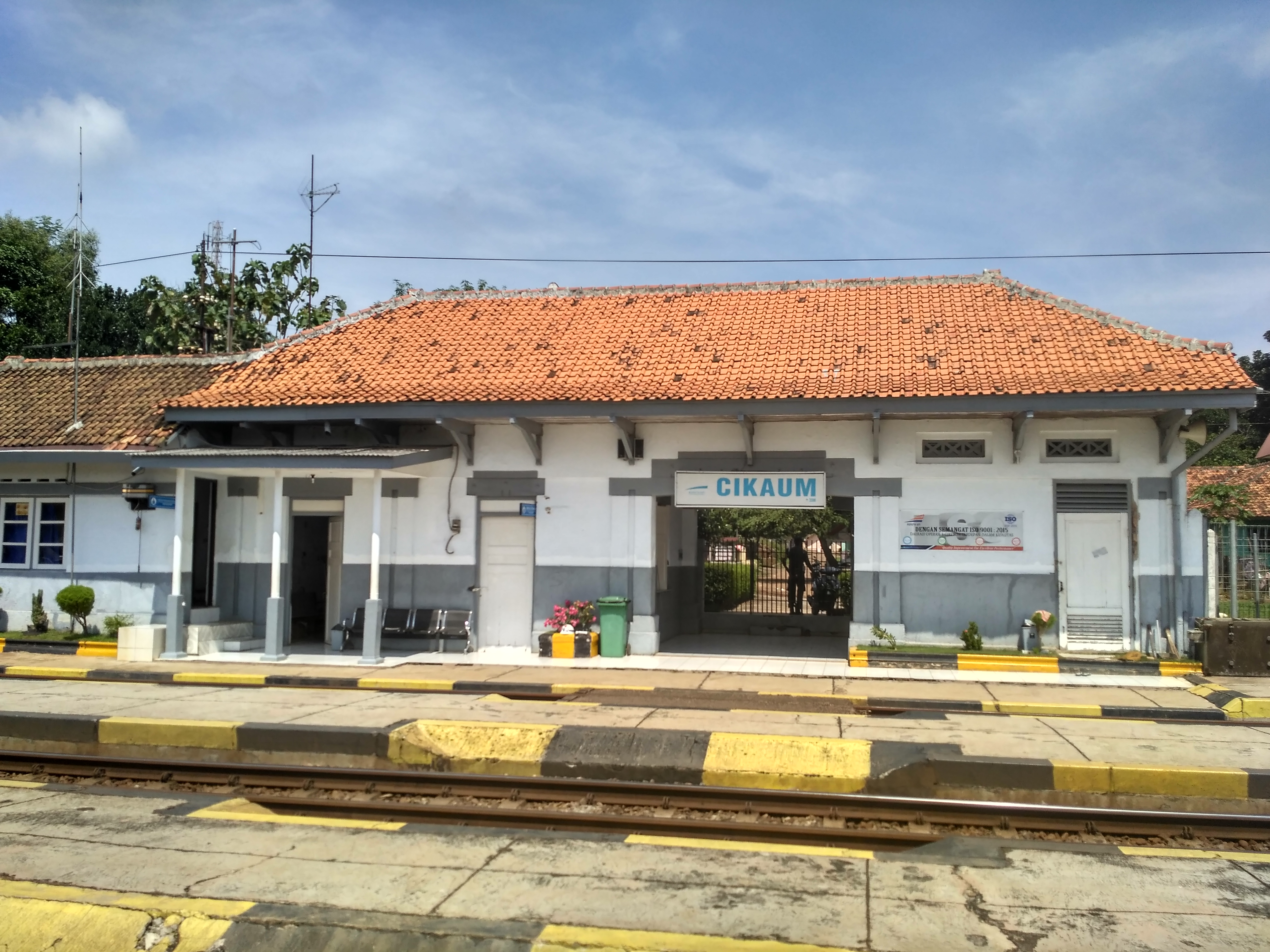 The Station building of Cikaum Station